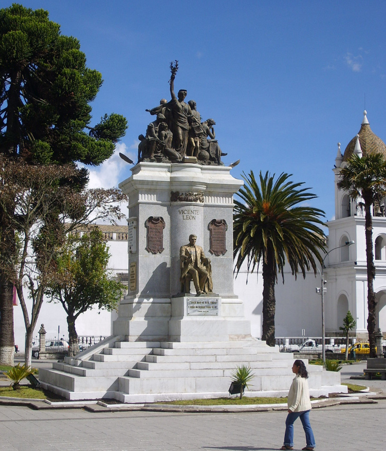 Monument of Vicente Leon on the main square of Latacunga, Ecuador.